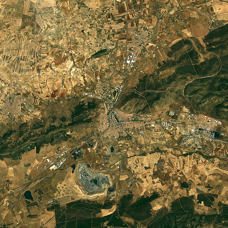 Observational Data courtesy of Landsat 8 satellite (Bands: 2, 3, 4, 8) & USGS. Data processed by Paul Quast. Data Specifications: Coordinates: 38.8807, -4.2337. Acquired: 25-July-2016 (Entity ID: LC82010332016207LGN00, Path: 201, Row: 33). Features of interest: Ciudad Real Central Airport (Abandoned Airport) [Middle]. Parque Natural Sierra de Cardena y Montoro [Bottom-Middle]. Puertollano [Middle]. Sierra Morena Mountain [Bottom-Middle]. Toledo (Outskirts) [Top-Middle].